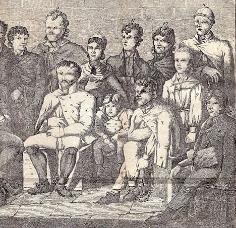 Hölzerlipsbande, Ausschnitt aus größerem Stich